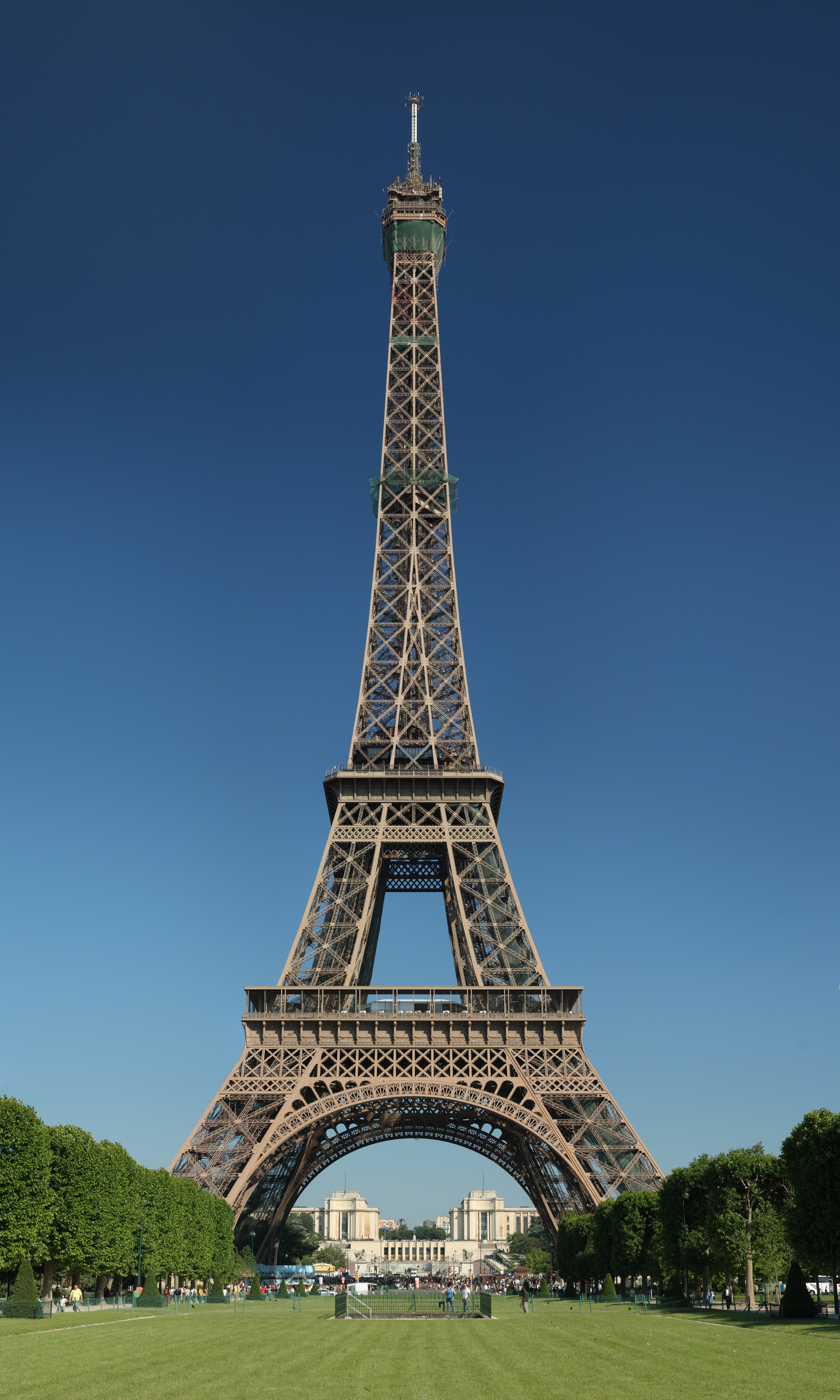 Cropped to 1.66 ratio from the original.